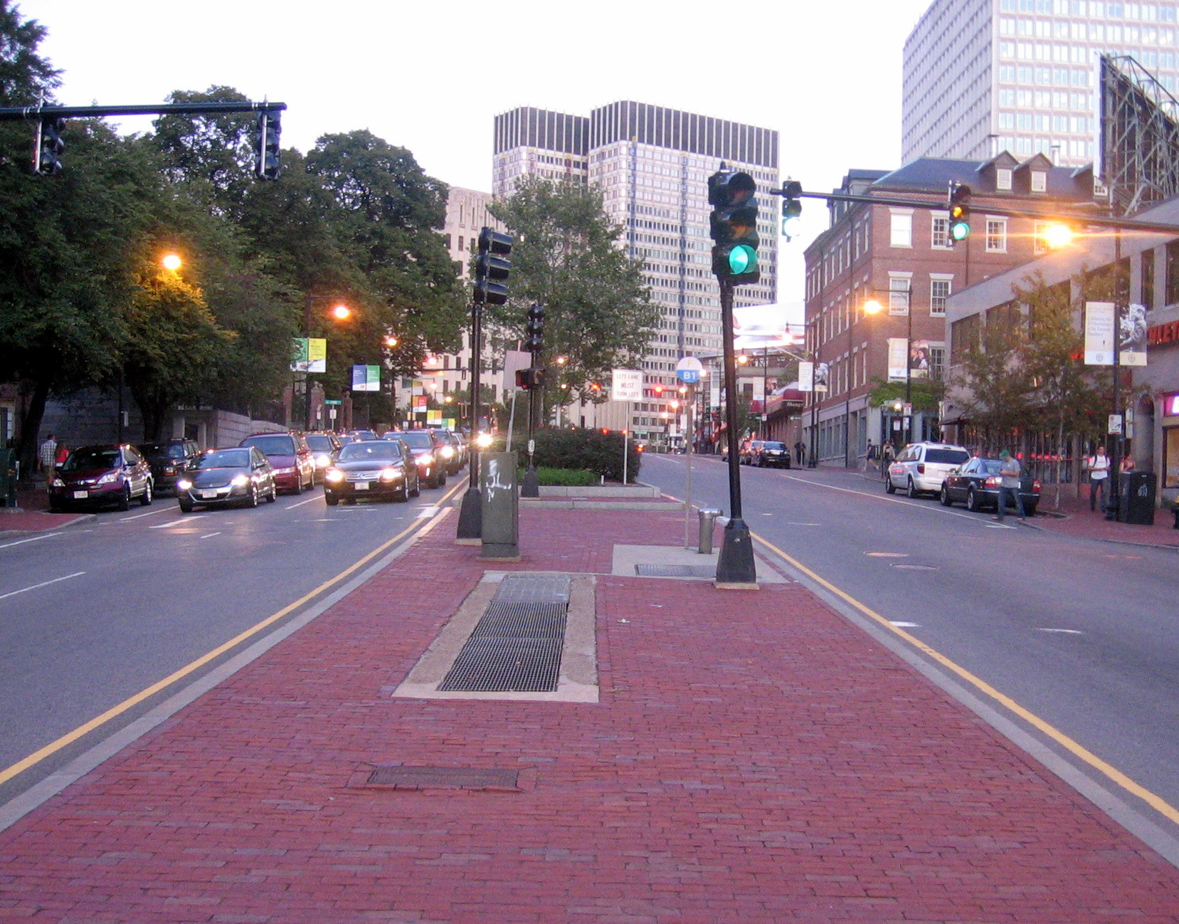 Looking east on Cambridge Street at the former location of the Joy Street Portal. The grate covers a ventilation shaft for the two Blue Line tail tracks that extend from the Bowdoin loop, and an escape hatch is visible behind the traffic light.